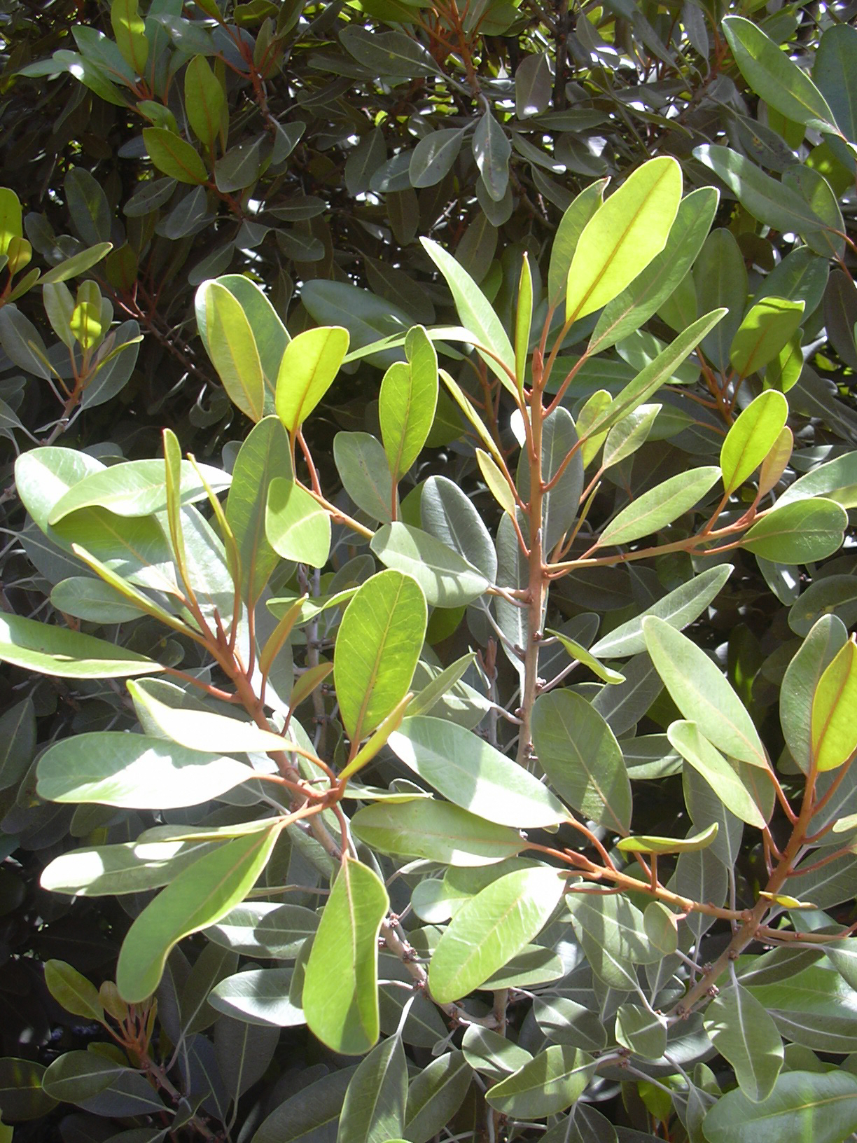 Nesoluma polynesicum (leaves). Location: Maui, Maui Nui Botanical Garden